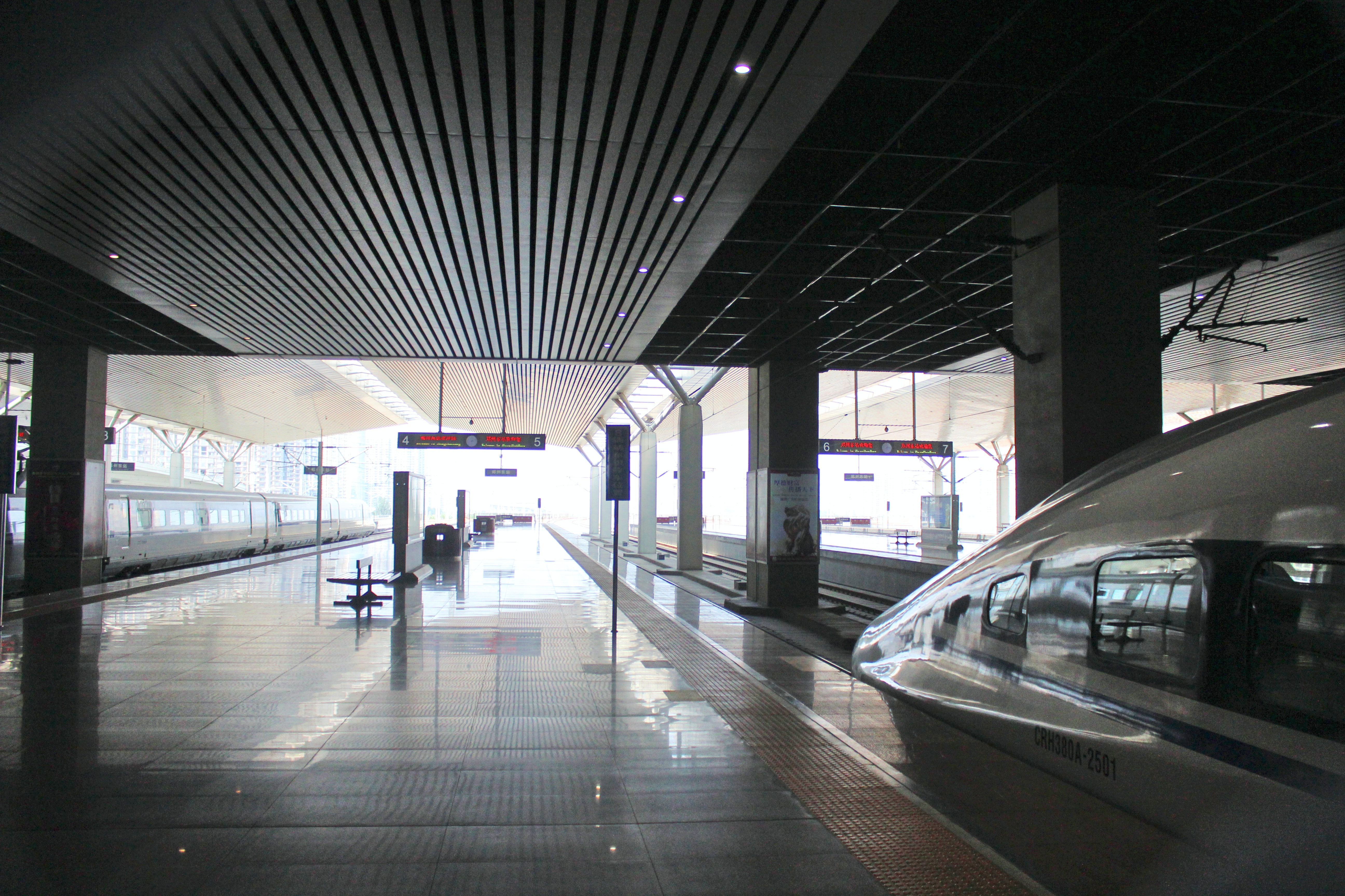 A bullet train, China, 2015